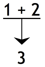 An example of dependent premises